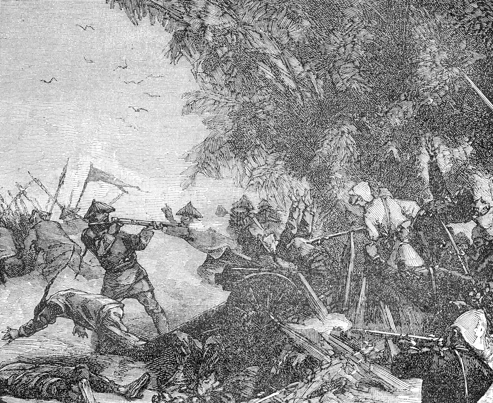 French infantry capture a Chinese fort during the battle of Nui Bop, 4 January 1885